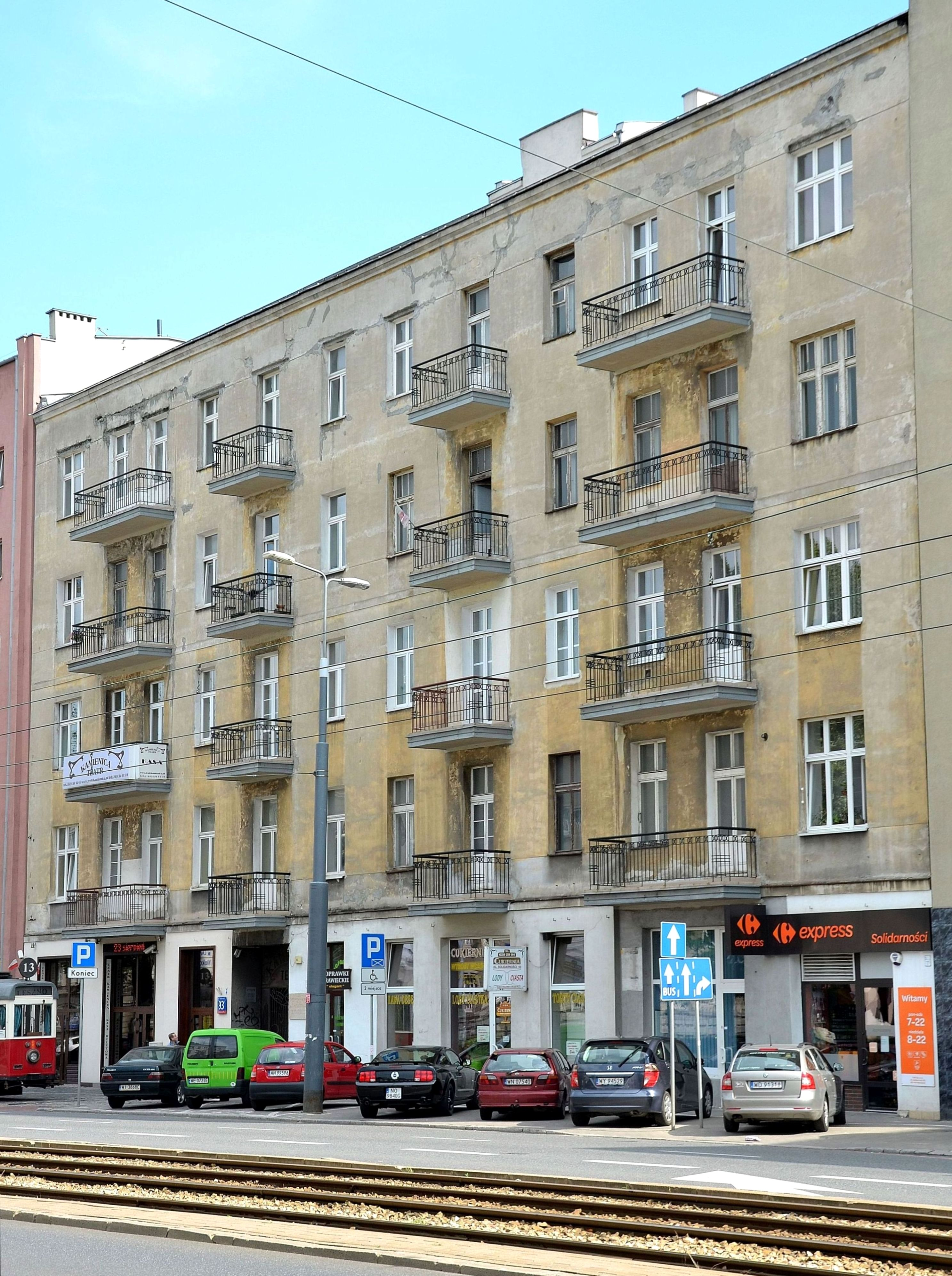 Townhouse at 93 Solidarność Avenue in Warsaw (formerly 13 Leszno Street)